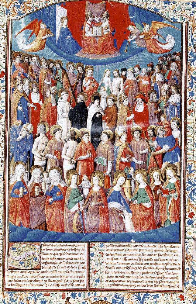 Paradise from De Civitate Dei by French School Ms 246 f.406r Paradise, from 'De Civitate Dei' by St. Augustine of Hippo (354-430) Museum: Bibliothèque Sainte Geneviève Vendor: Bridgeman Art Library